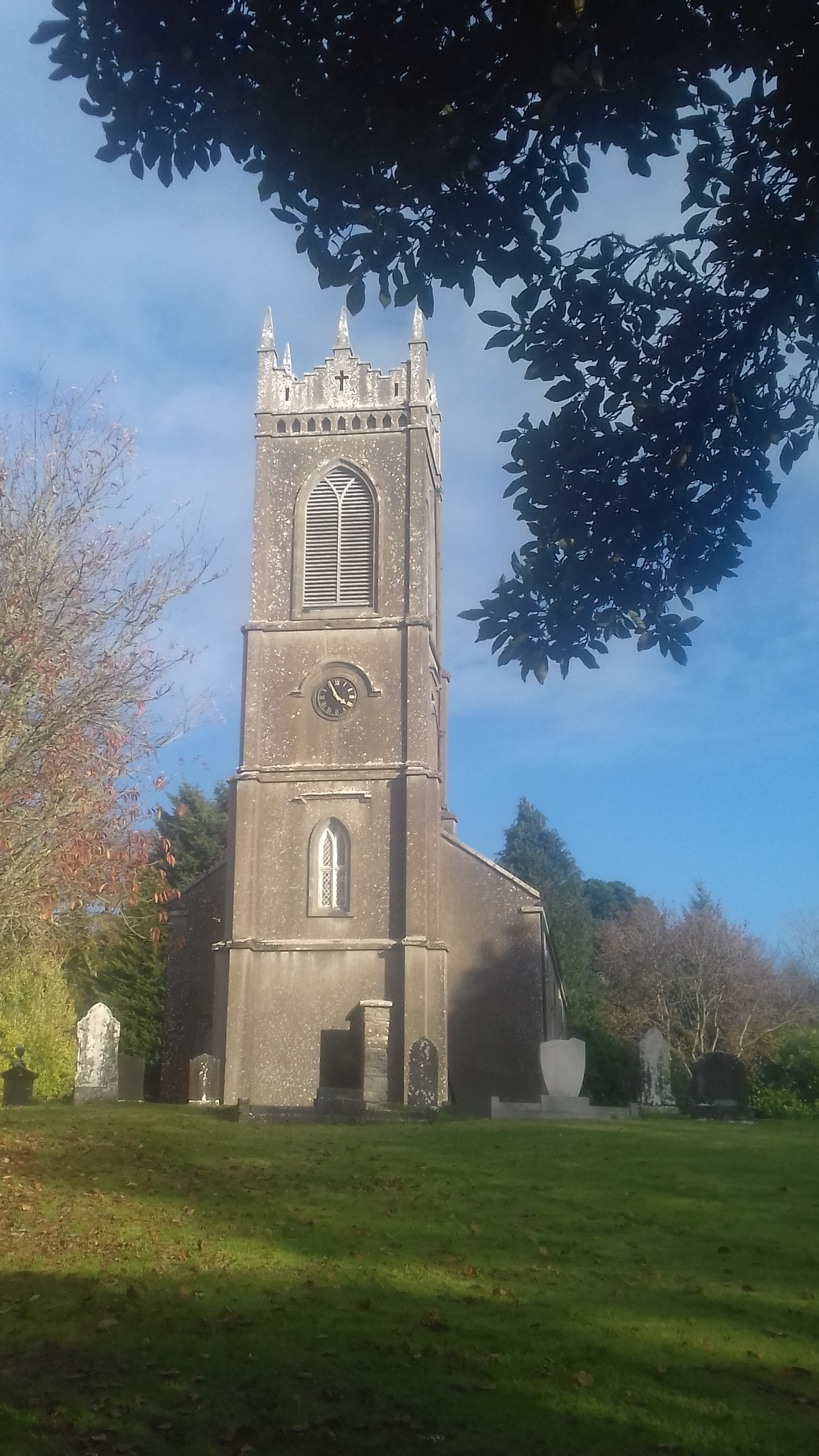 St. Mary's Church (Church of Ireland) by the Wandesforde estate in Castlecomer, County Kilkenny, Ireland. Halloween 2018.